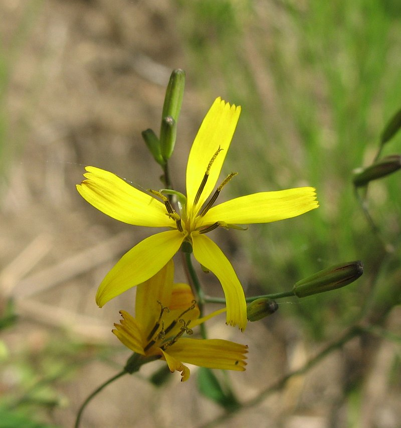 Photograph of Ixeris dentata,taken in Machida city, Tokyo, Japan.